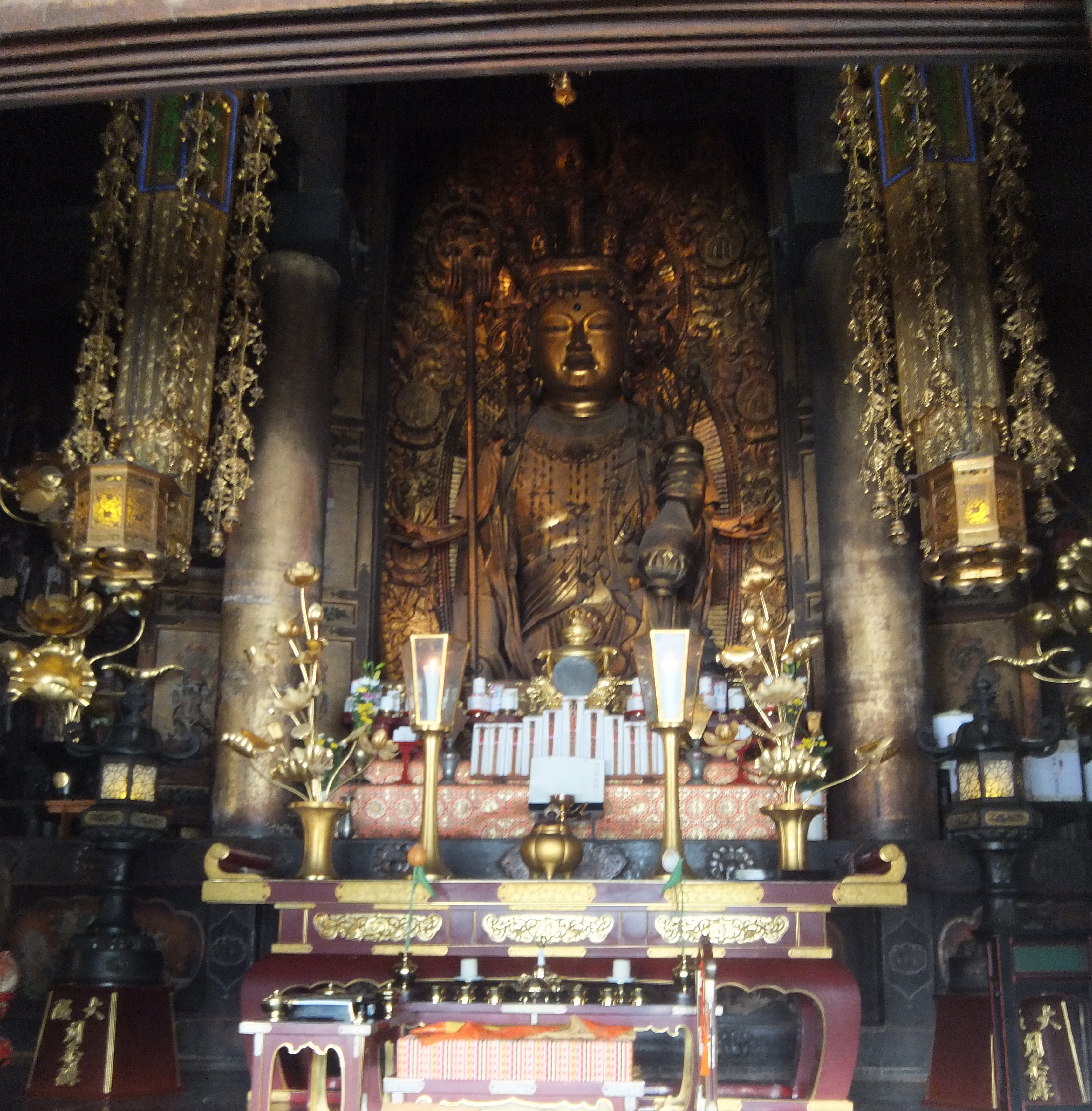 Eleven Faced Kannon (Jūichimen Kannon) statue in the Hase-Temple (Hasedera), Sakurai (Nara Prefecture, Japan)